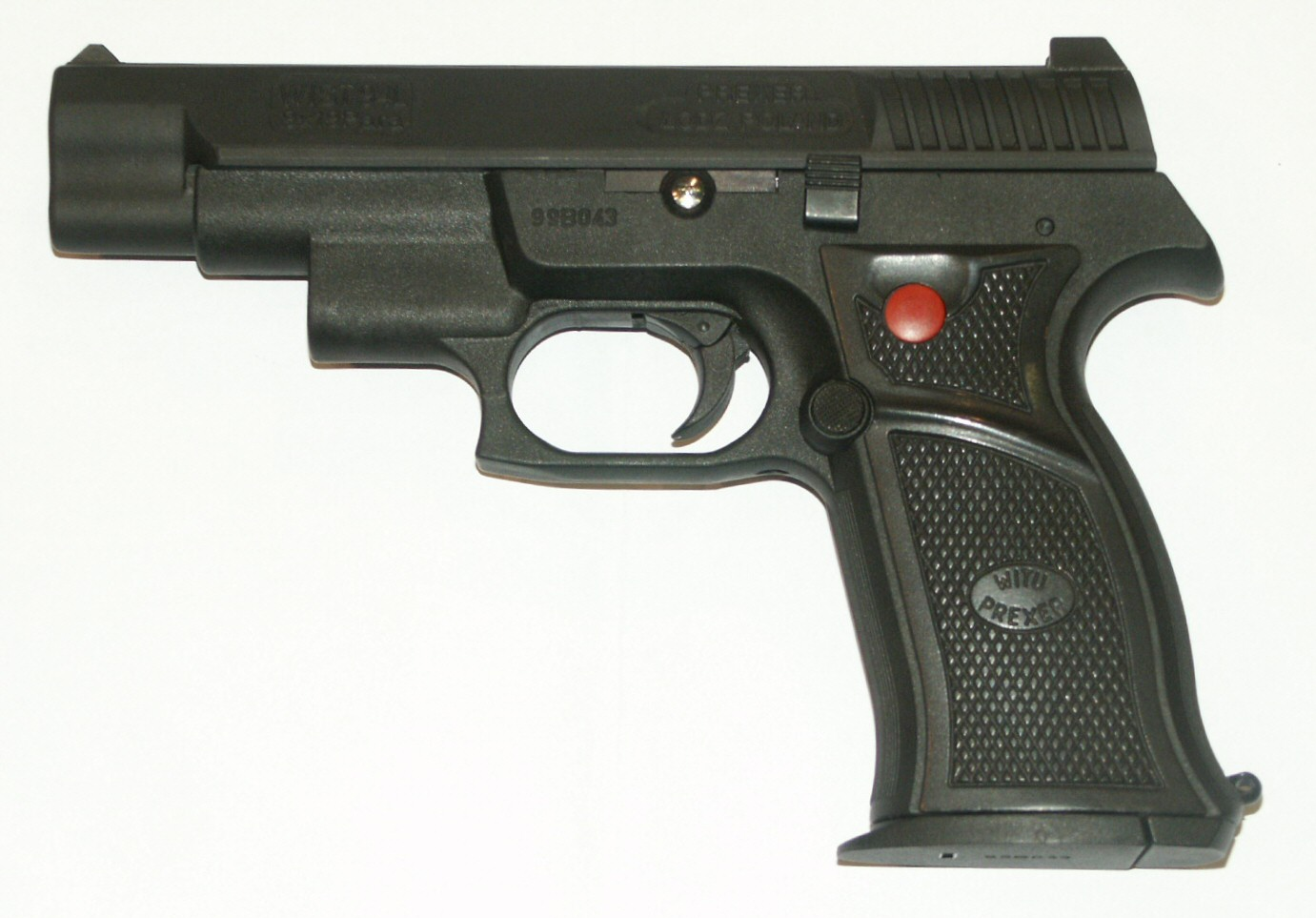 Polish military pistol WIST-94L, with built-in laser sight